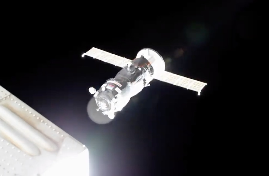 MS-13 Docks with the ISS